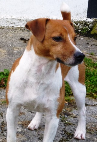 Plummer Terrier Nathy